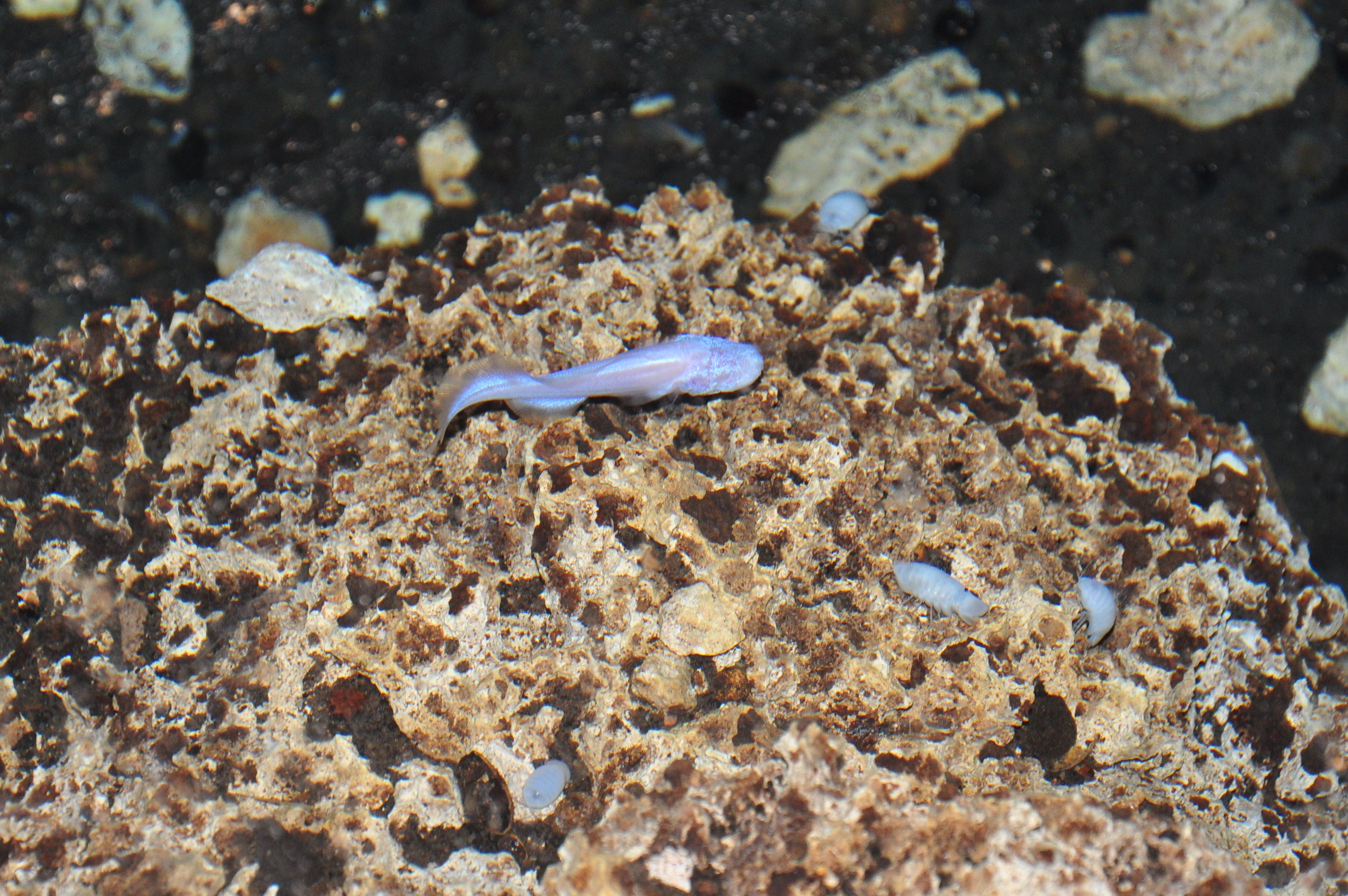 In the cave of hanging snakes, Kantemo, QR, Mexico. In the clear water of the cave's cenote lives a small community of species. This photo shows a Mexican blind brotula (Typhliasina pearsei) and four cirolanid isopods (Creaseriella anops)